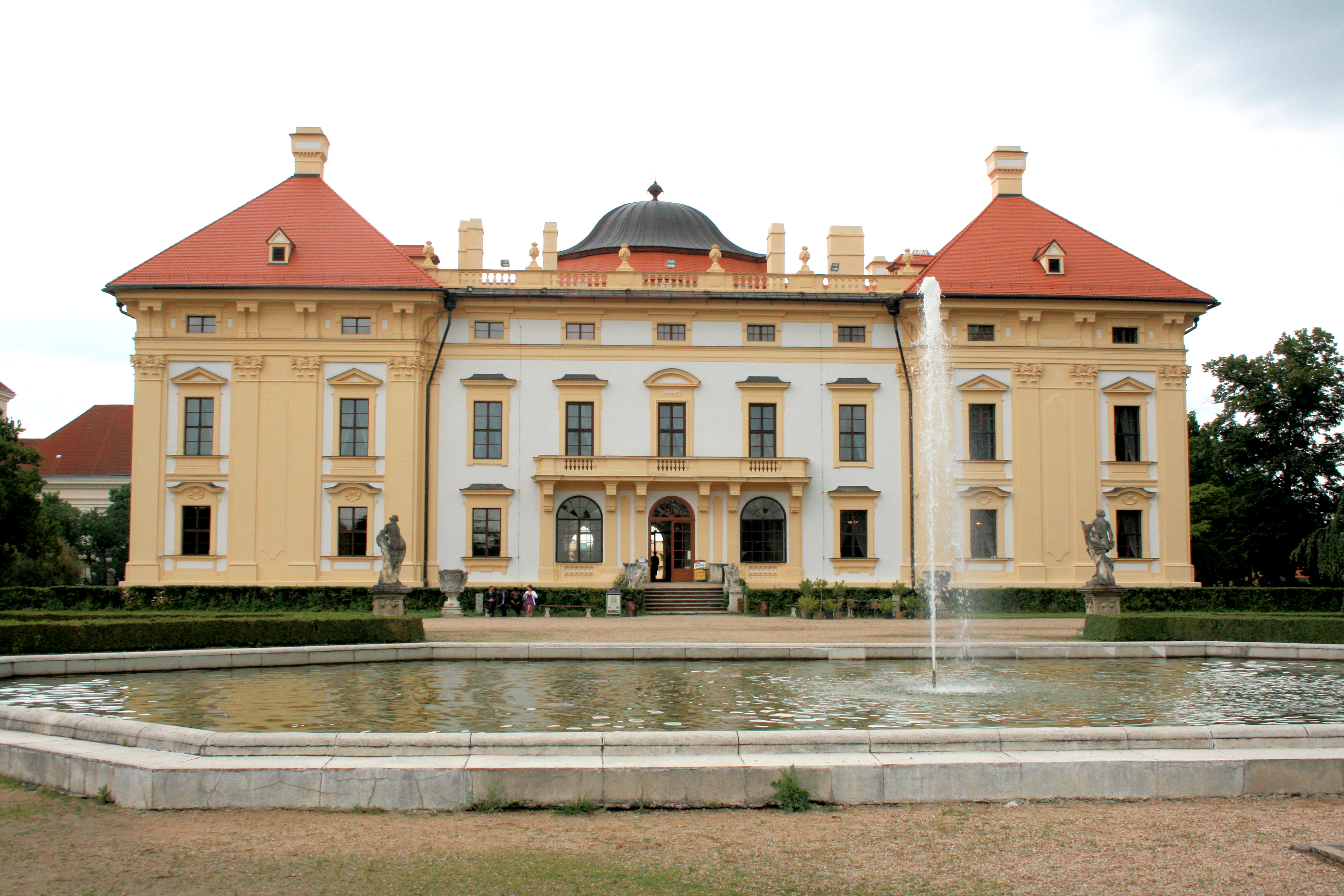 Baroque castle in Slavkov u Brna (Austerlitz).